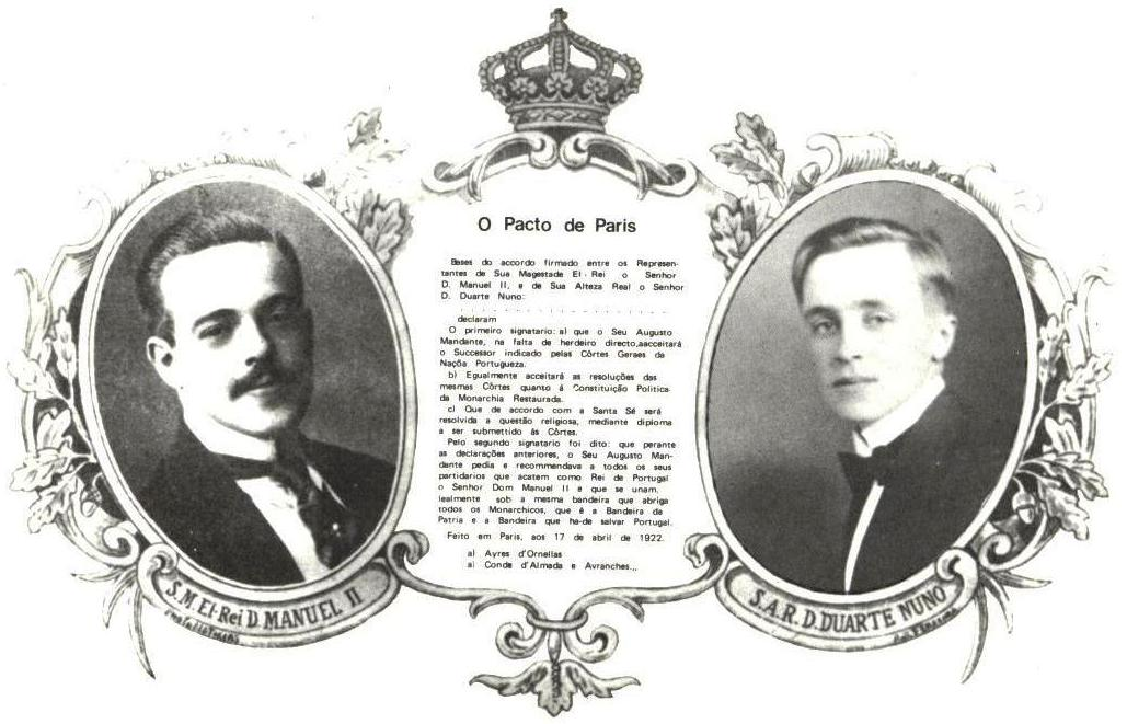 Paris Treaty between D. Manuel II of Portugal and D. Duarte Nuno of Bragança